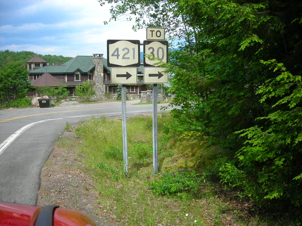 NY Route 421 at its northern terminus, detailing NY 30 as well.